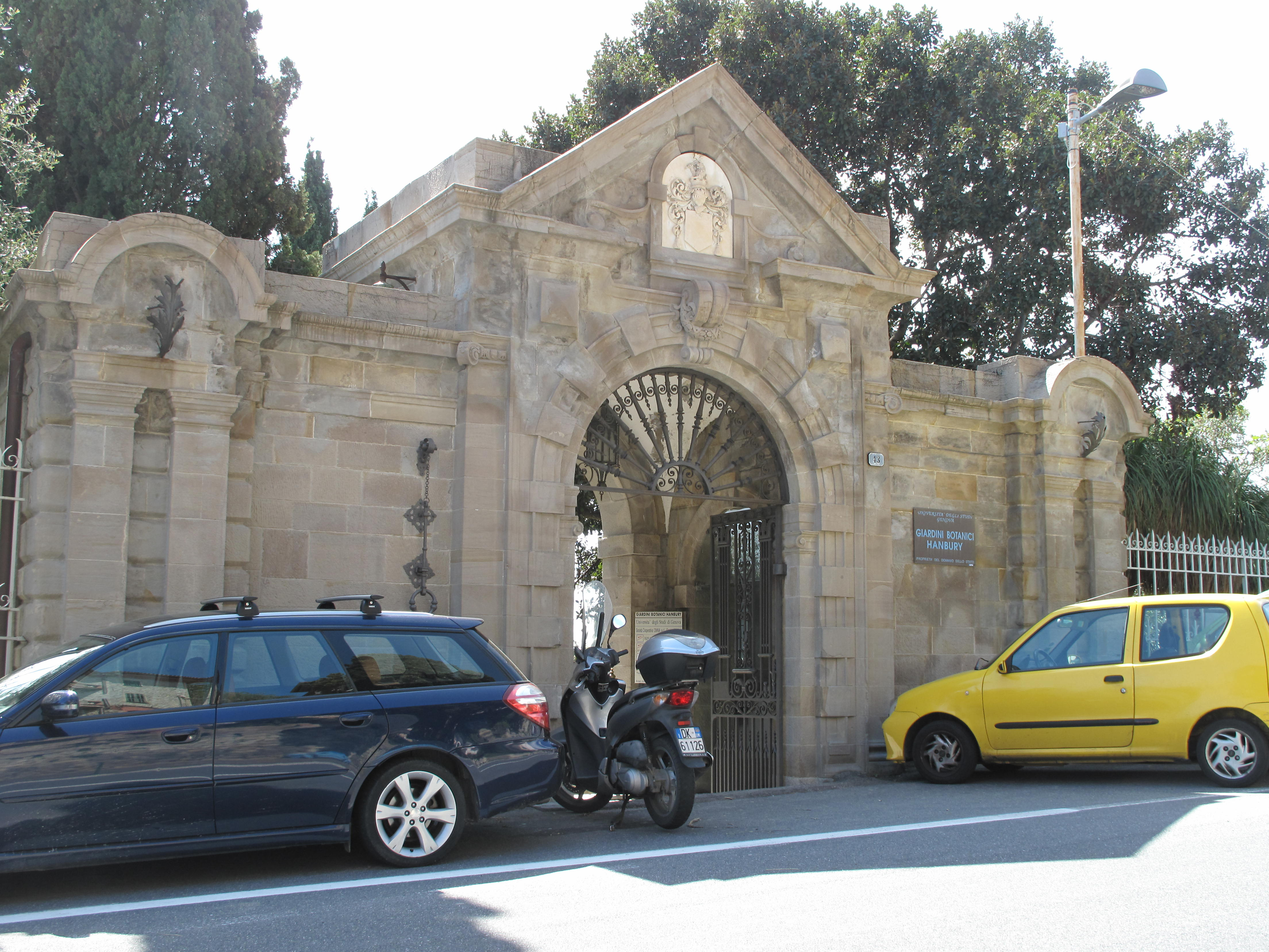 Entrance of the gardens of the villa Hanbury (Ventimiglia, Italy).